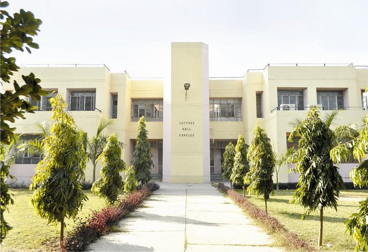 Aditya Mohan, MNNIT